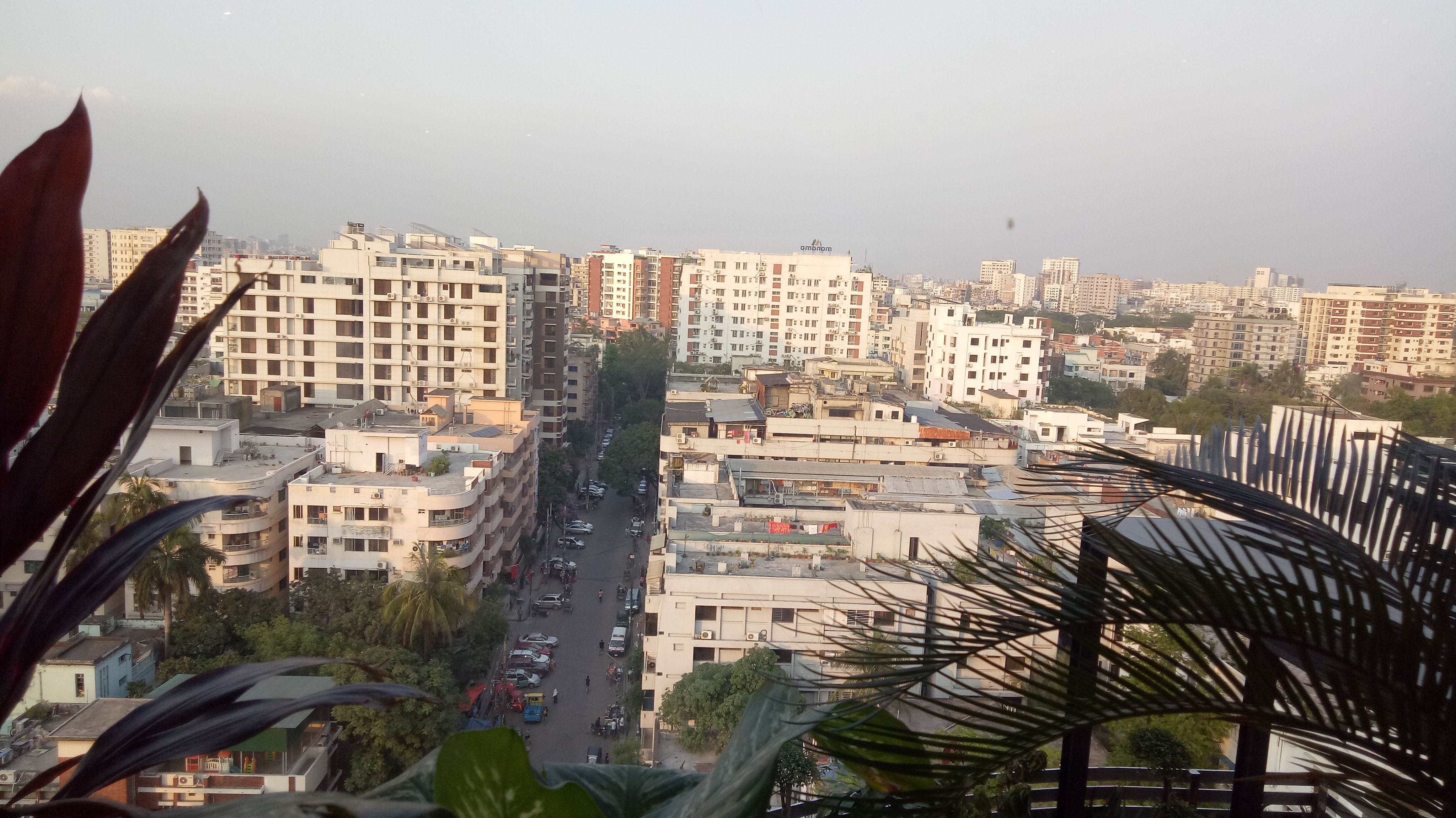 Dhanmondi Skyline from Deck 13 restaurant in Dhaka, Bangladesh.